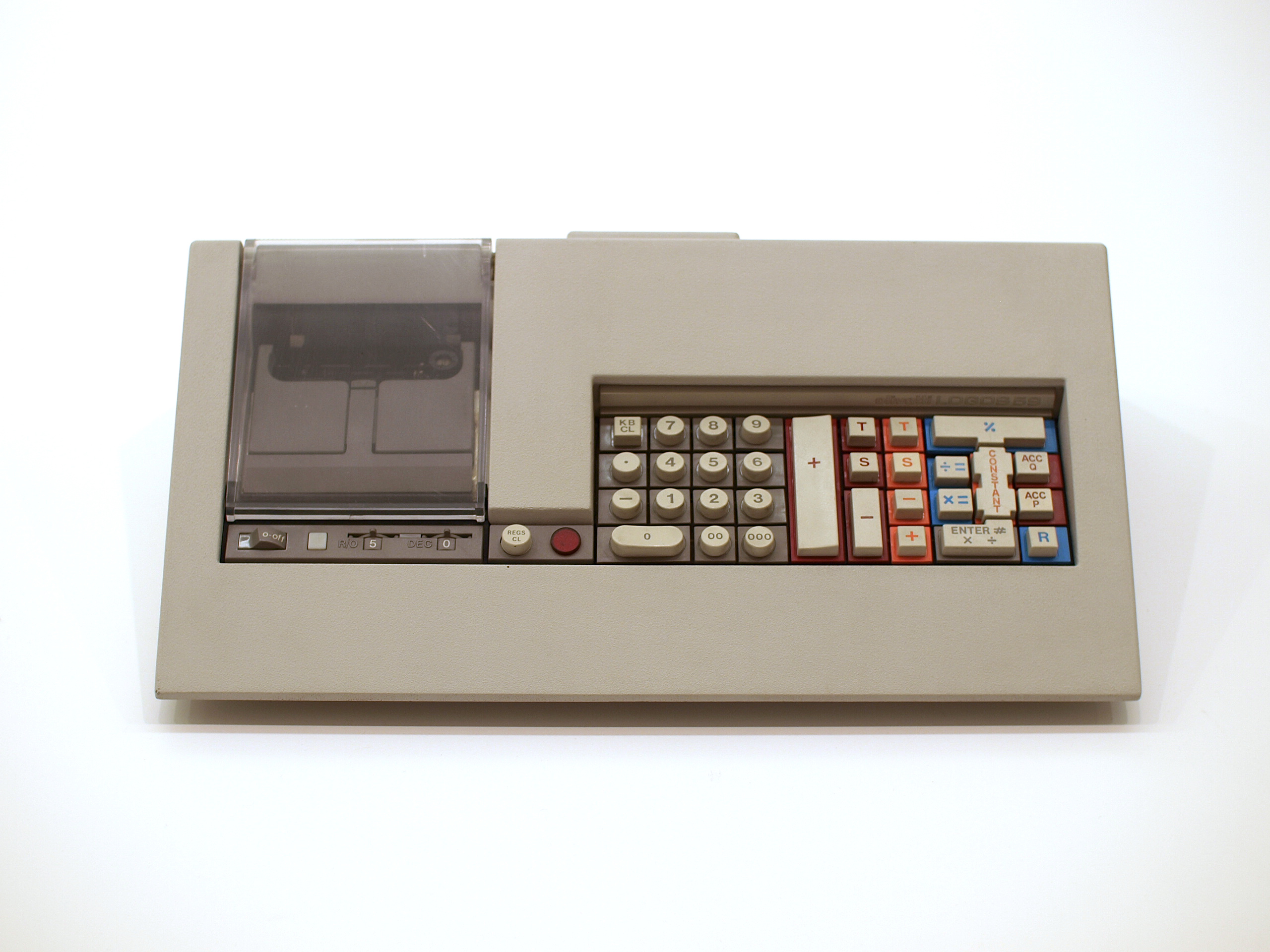 Olivetti Logos 59 calculator, designed by Mario Bellini. It's not a Logos 55; you can see the model name over the "%" button